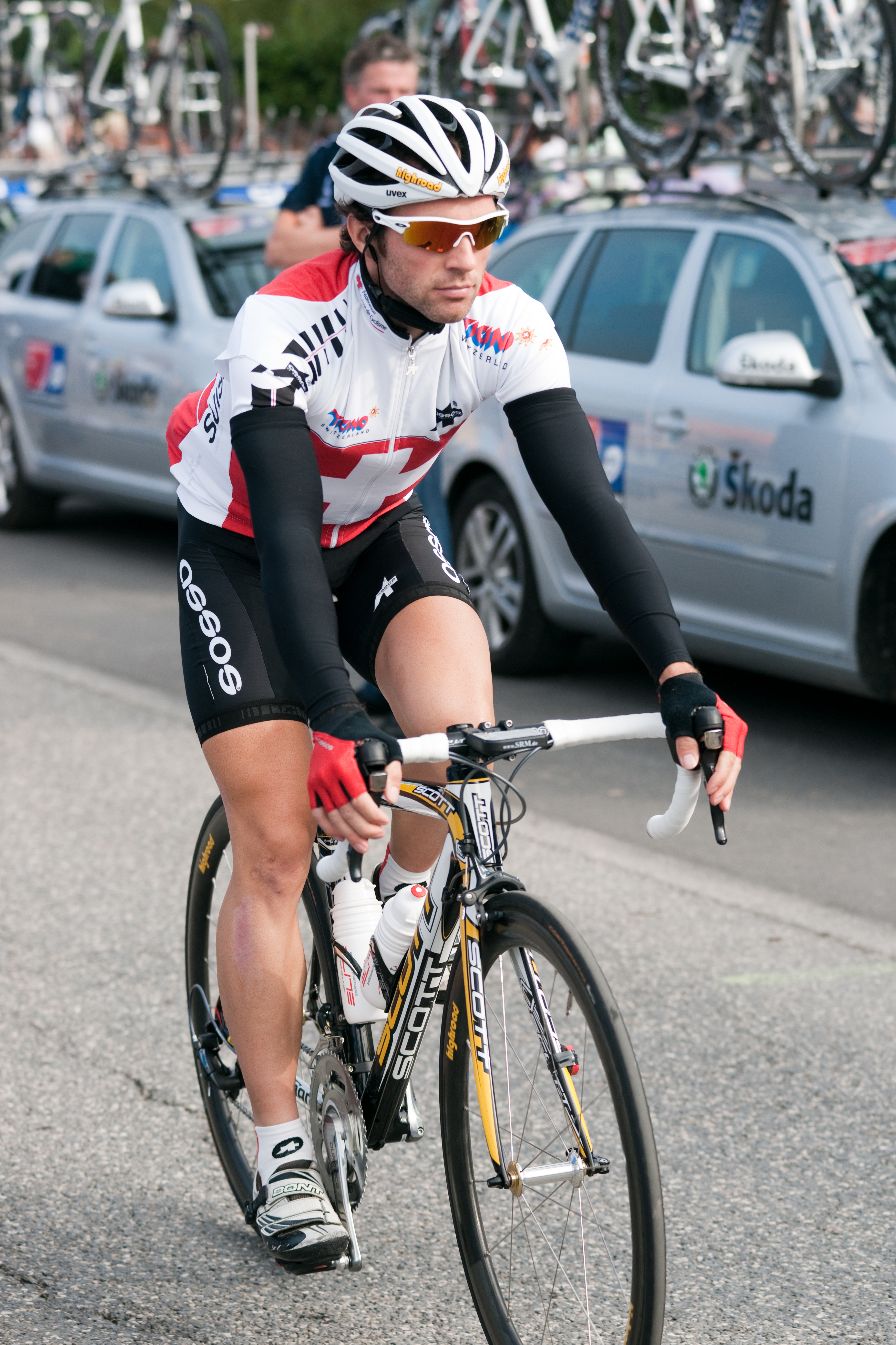 Michael Albasini during the 2009 UCI Road World Championships in Mendrisio, Switzerland.